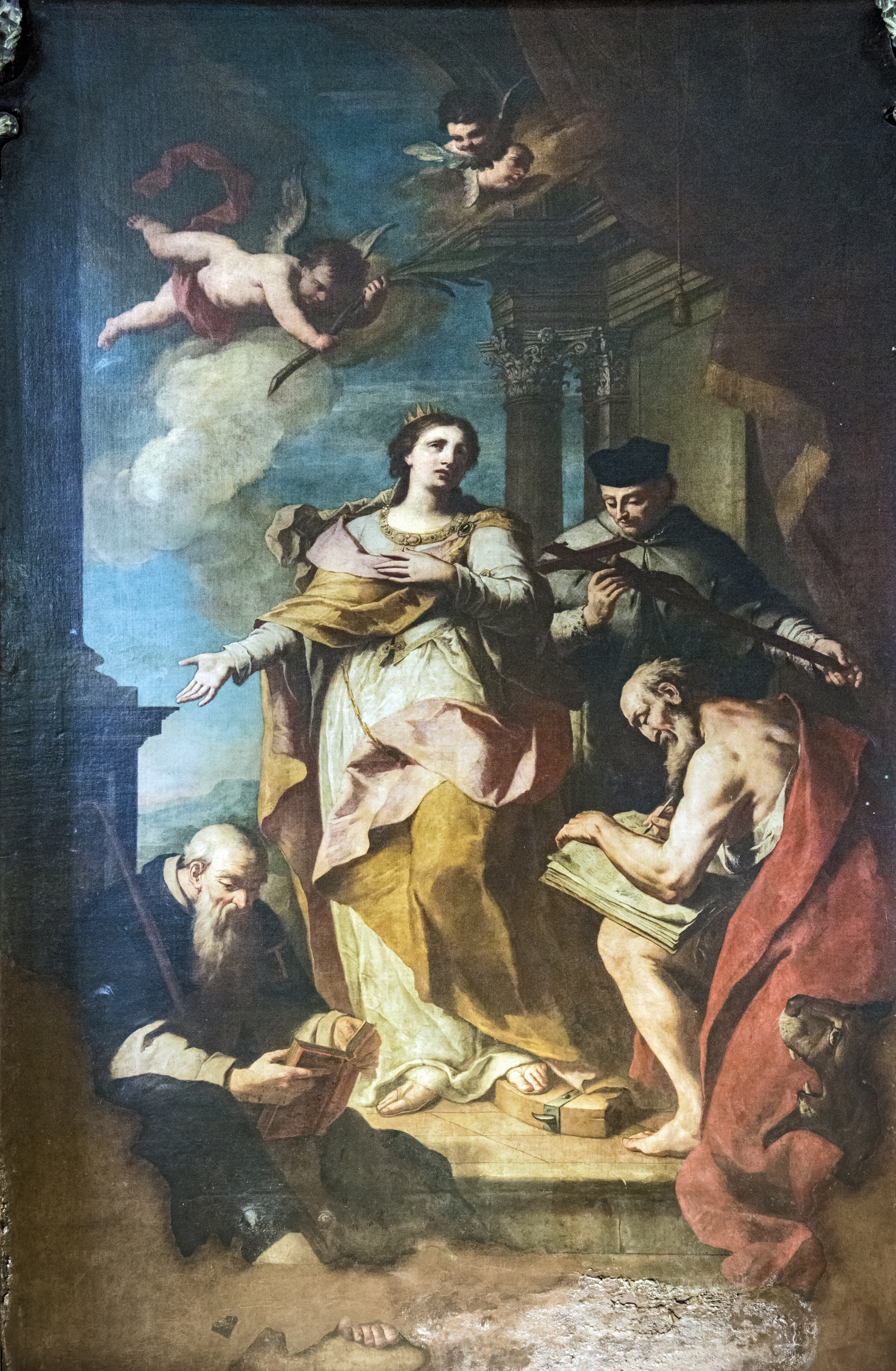 Santi Apostoli (Venezia) - "Saint Catherine of Alexandria, St. Anthony Abbot, St. Jerome and St. John of Nepomuk." by Domenico Maggiotto. Oil on canvas.